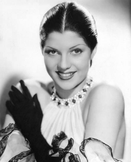 Photograph of Rita Cansino (Rita Hayworth), contract player at Fox Films